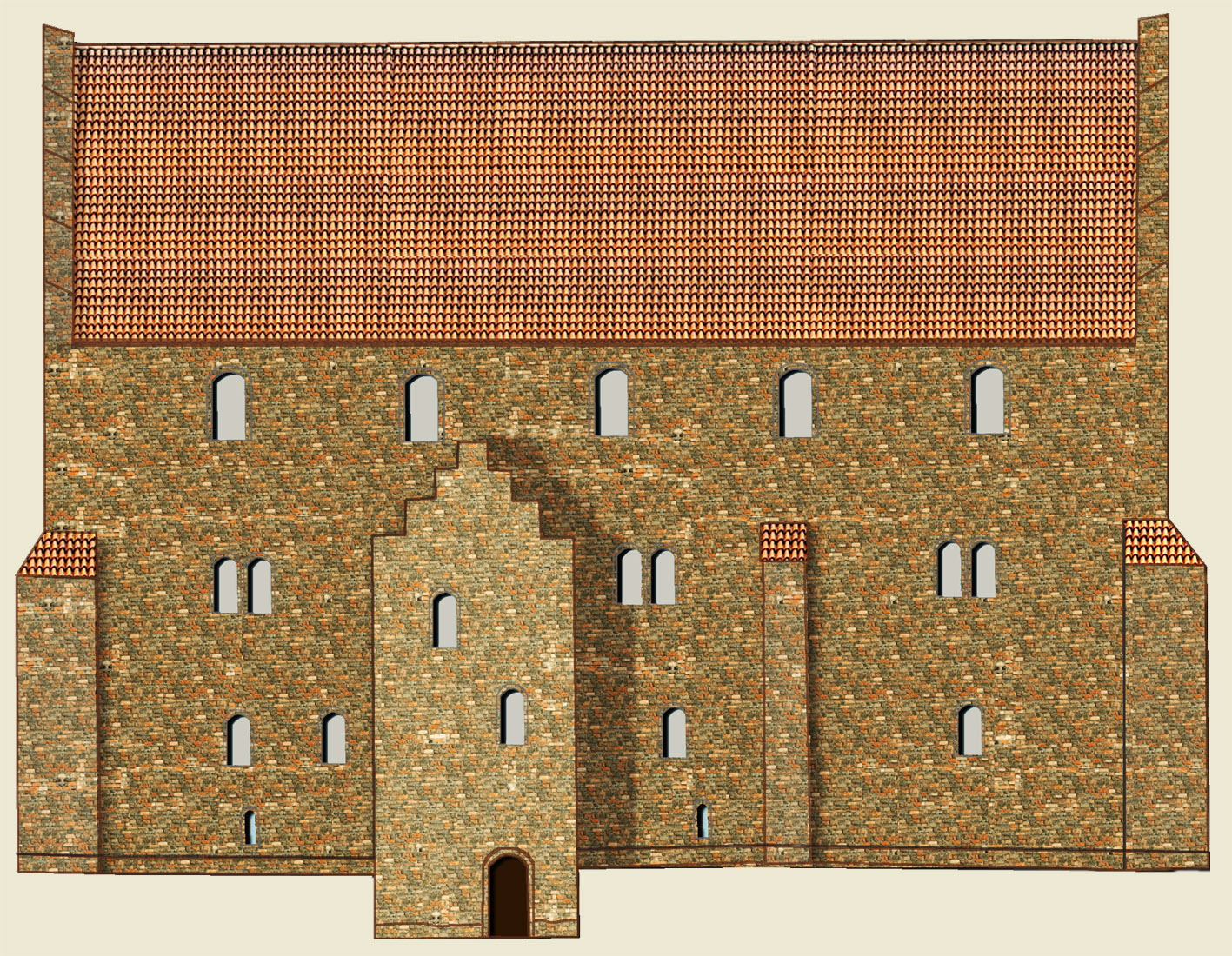 Reconstruction of the mediaval palace Alsnöhus near Stockholm in Sweden. About the year 1280.